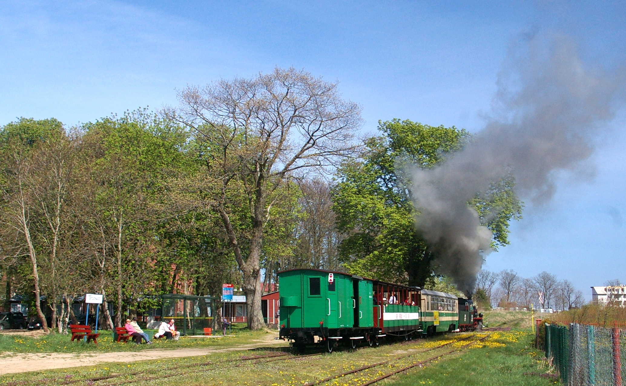 Narrow gauge train stop in Trzęsacz (Poland)